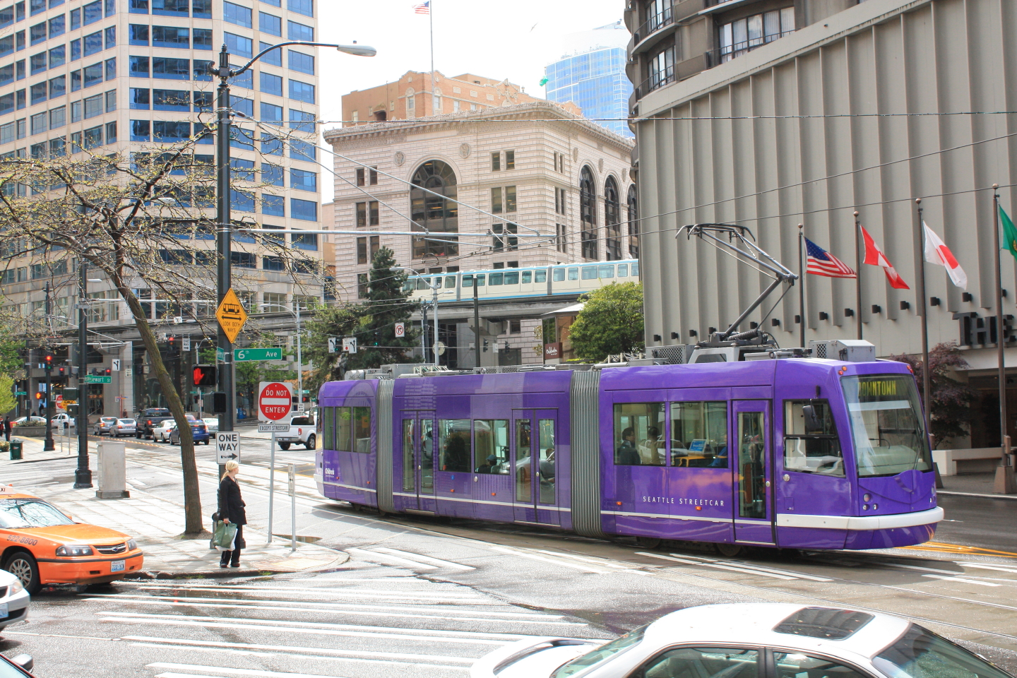 The purple Seattle SLU streetcar travels southbound between 6th Avenue and Stewart Street on 27 April 2010. Above the streetcar, the blue monorail train is also southbound.